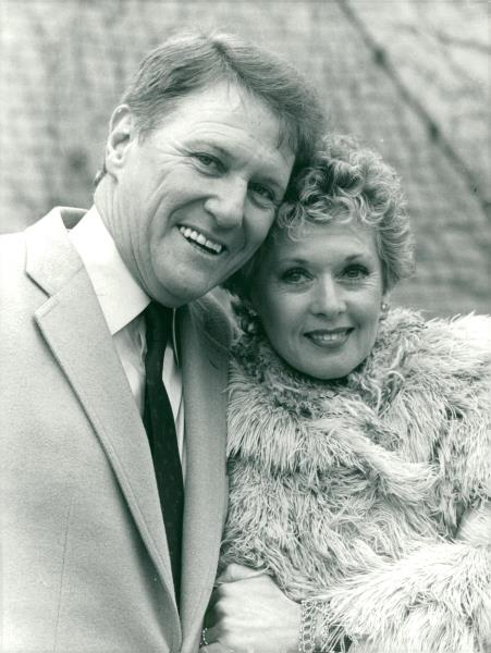 Tippi Hedren, then 46, with her husband Noel Marshall in 1982.